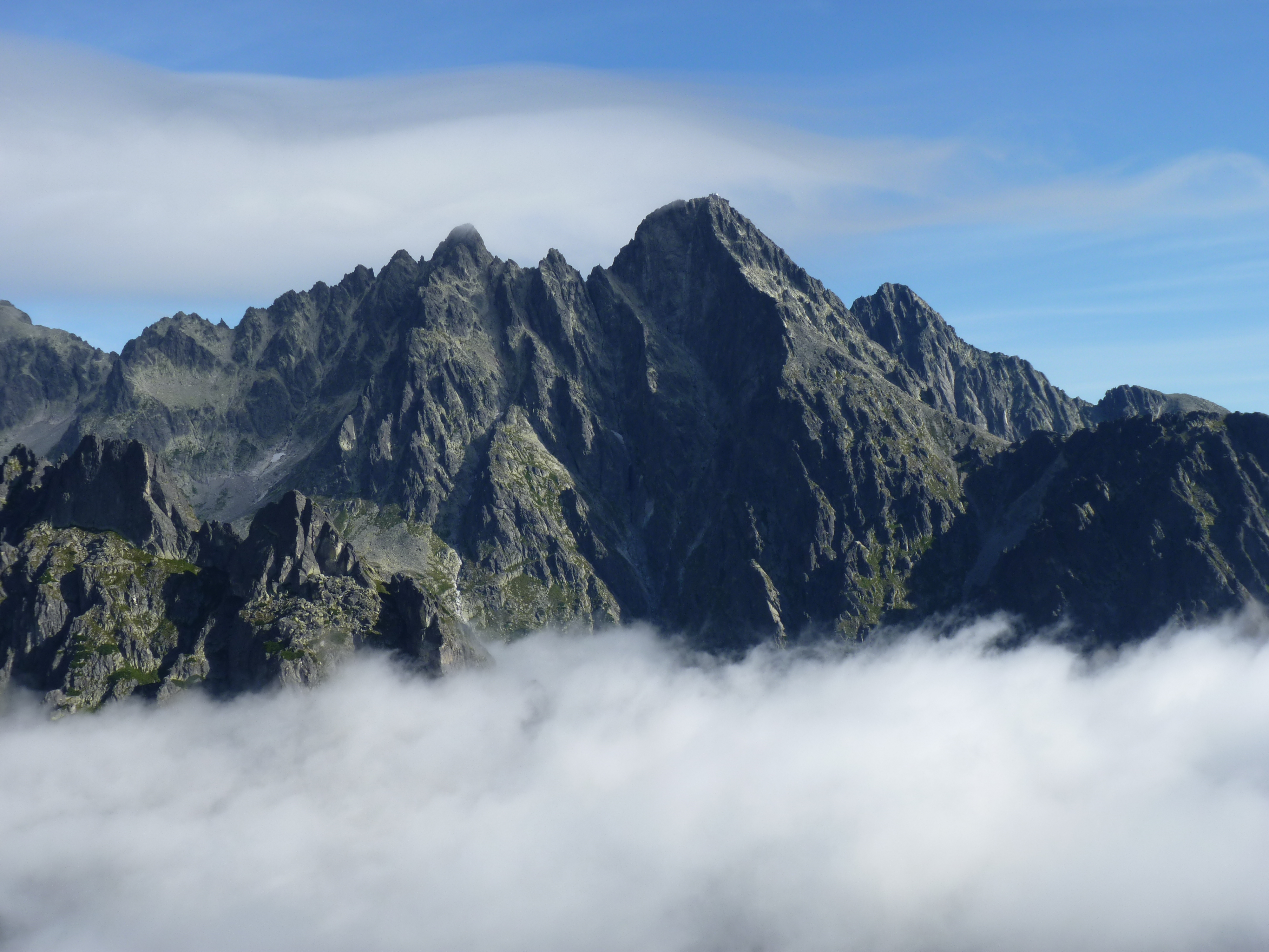 Lomnický štít, Tatra Mountains, Slovakia